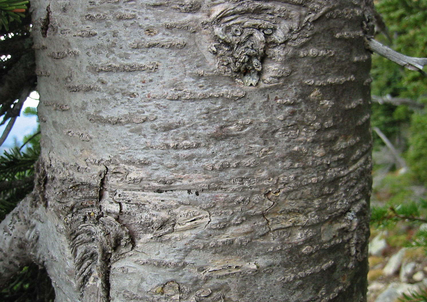 Subalpine Fir bark Description: Subalpine Fir (Abies lasiocarpa) bark about 1.5 m above the ground on an 0.2 m in diameter trunk. Viewpoint location: 0.3 km west of Sprite Lake. The lake is in the Wenatchee Mountains, an eastern spur of the Cascade Range, located in Wenatchee National Forest, Washington, USA, about 21 km south of Stevens Pass. GPS: UTM 10 646163E 5267105N (WGS84/NAD83) USGS The Cradle Quad [1] Viewpoint elevation: 6220' View direction: North Date and time: 2005:10:09 14:29:51 PDT Camera: Canon PowerShot S110 Photographer: Walter Siegmund ©2005 Walter Siegmund